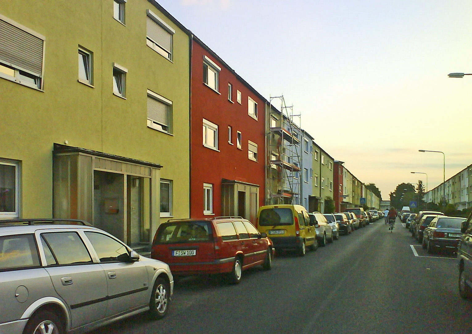 View of street "Am Ebelfeld" towards Ludwig-Landmann-Strasse (Siedlung Praunheim, Frankfurt am Main, Germany)